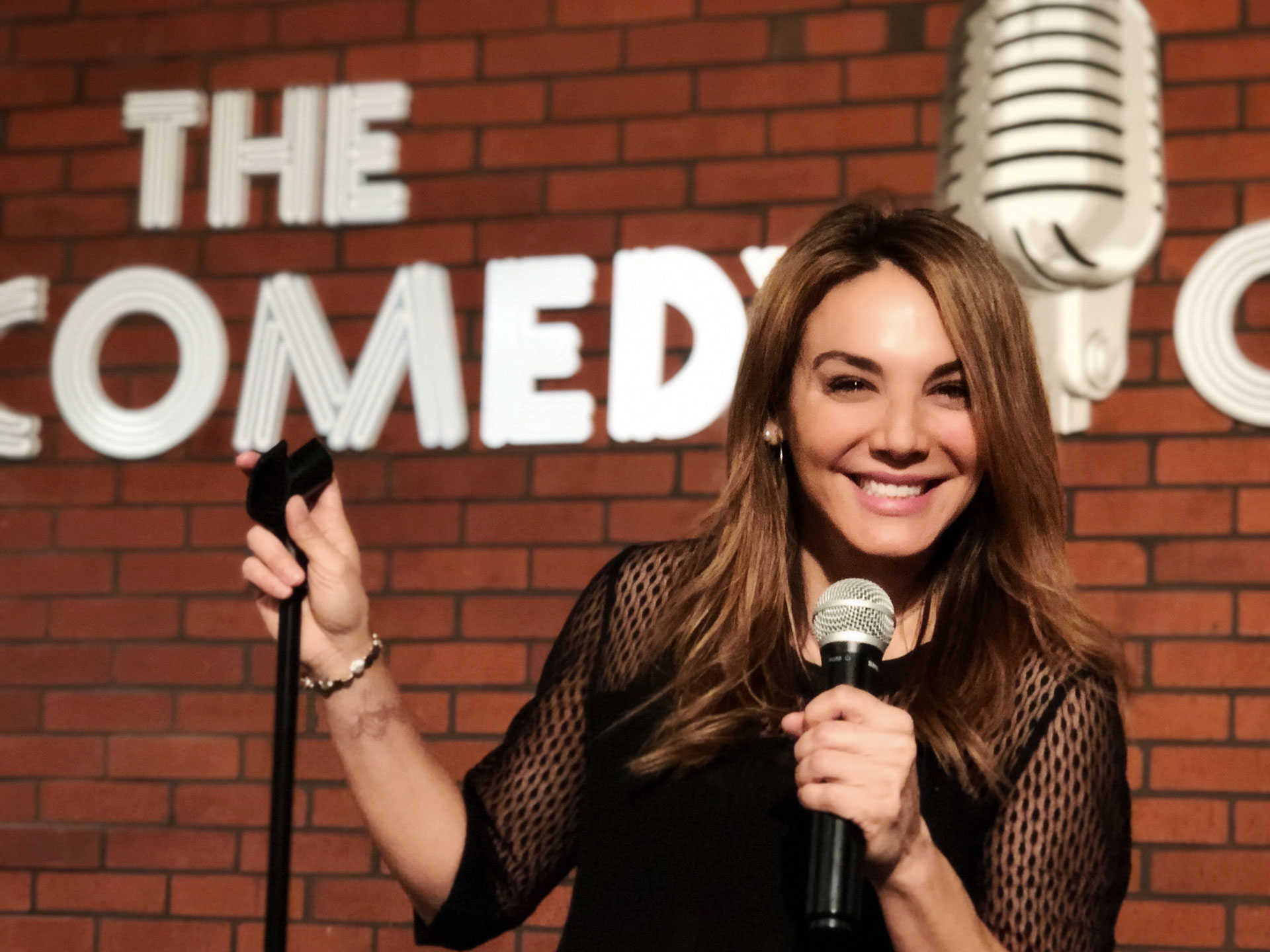 Jill-Michele Meleán performing on stage at Comedy Club in Pechanga Resort & Casino on January 24, 2019.